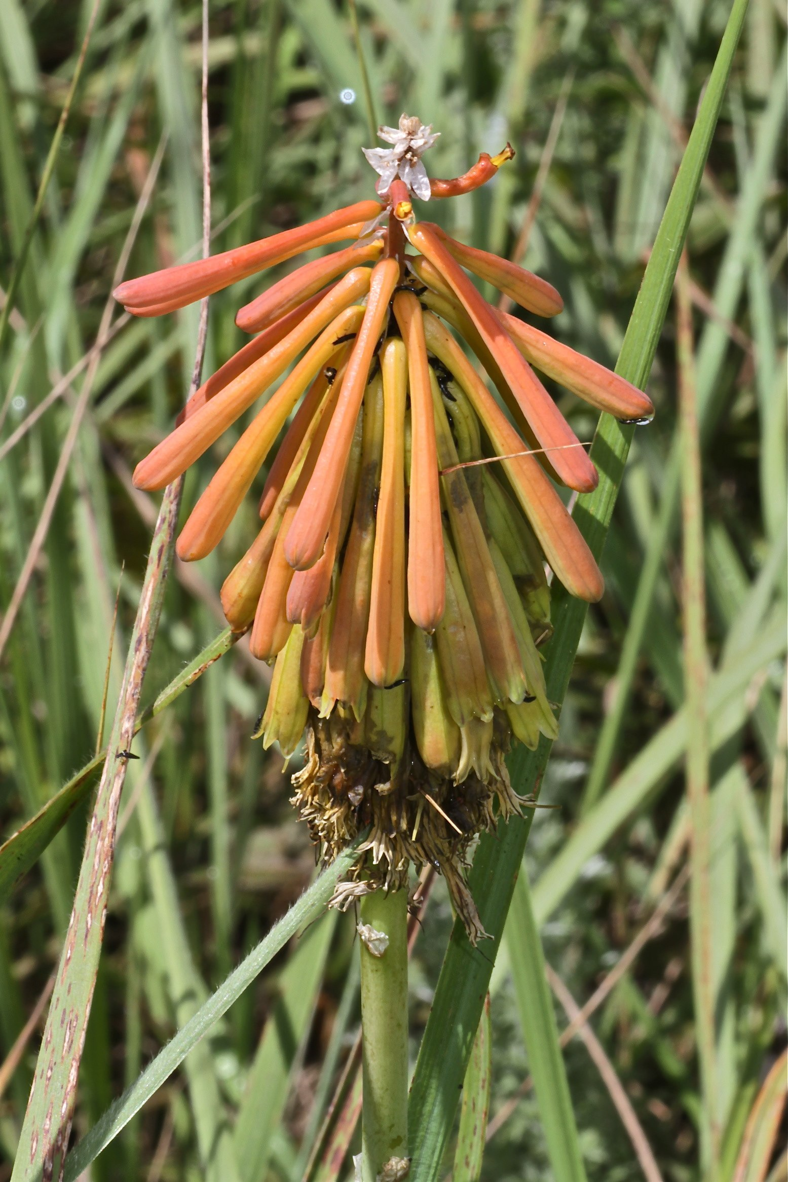 South Africa. Royal Natal NP